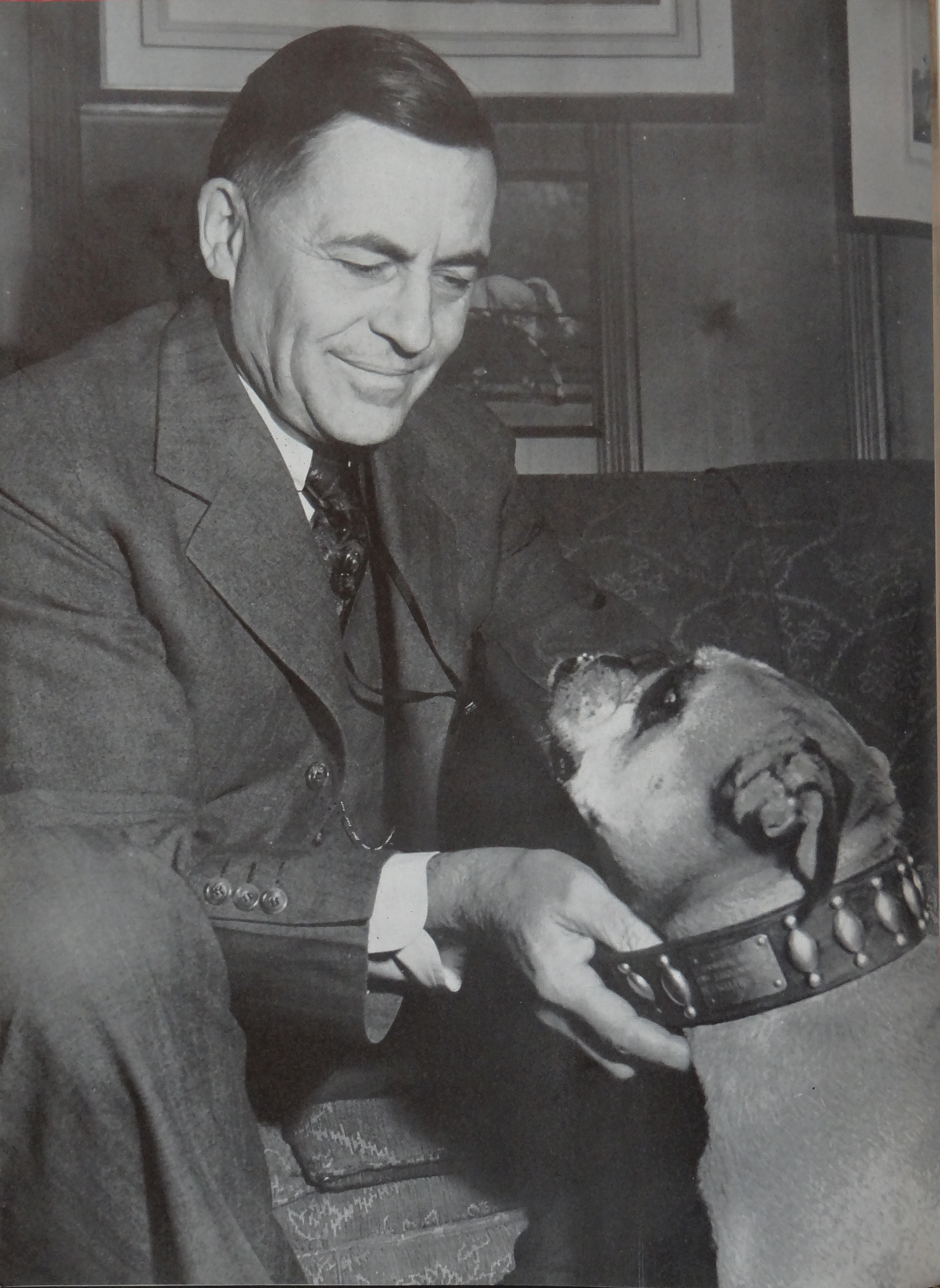 Univerisity of Michigan President Alexander Grant Ruthven Photograph of Univerisity of Michigan President Alexander Grant Ruthven